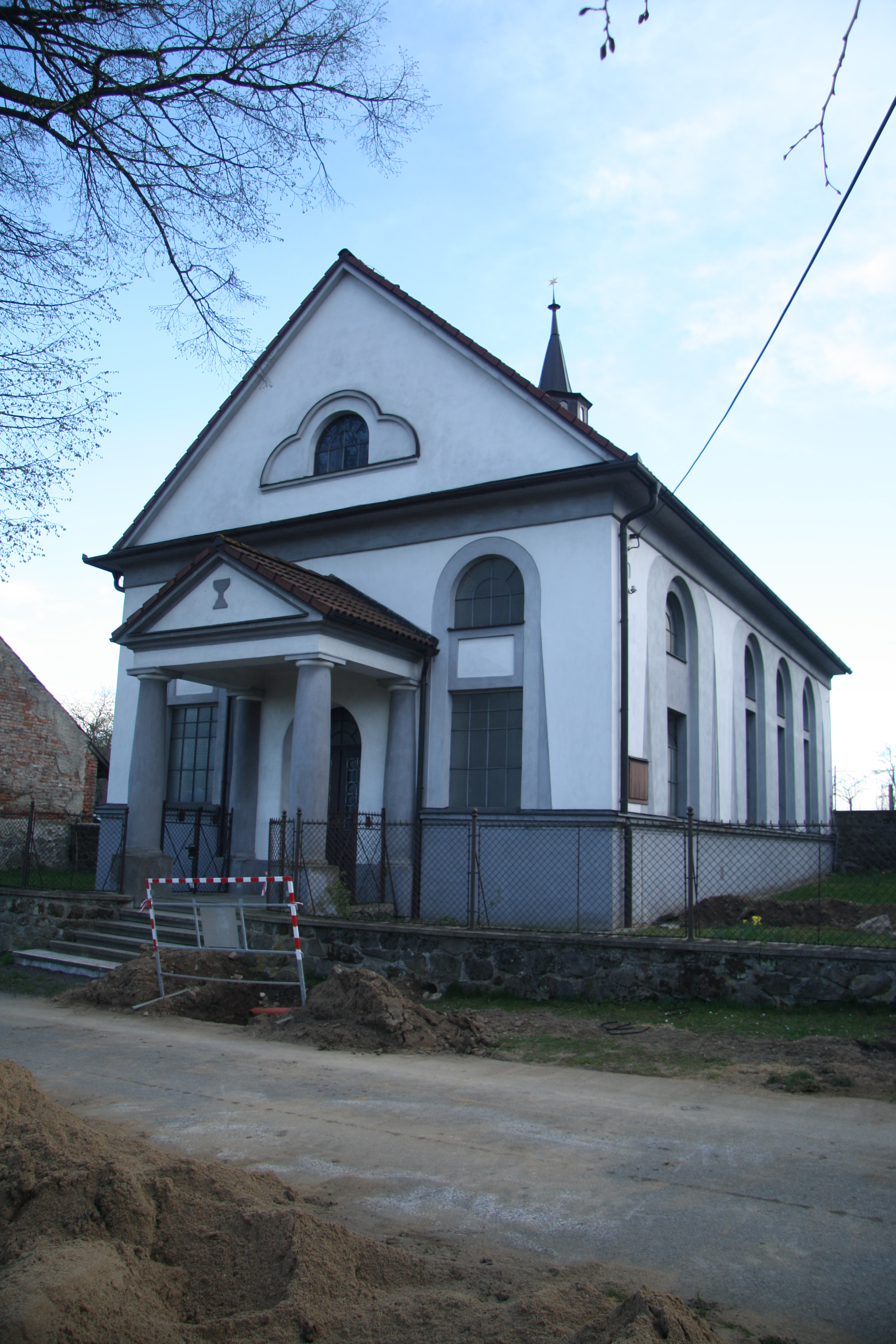 Overview of Evangelical church in Střížov, Brtnice, Jihlava District.